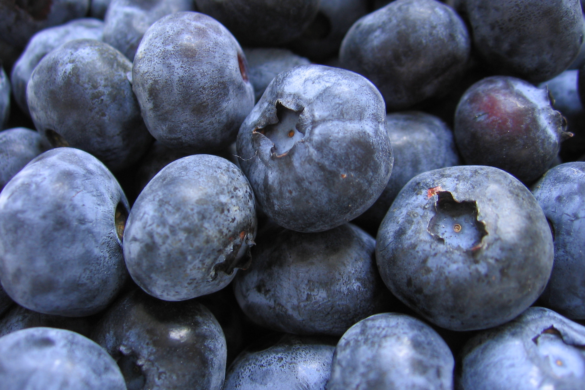 Blueberries.